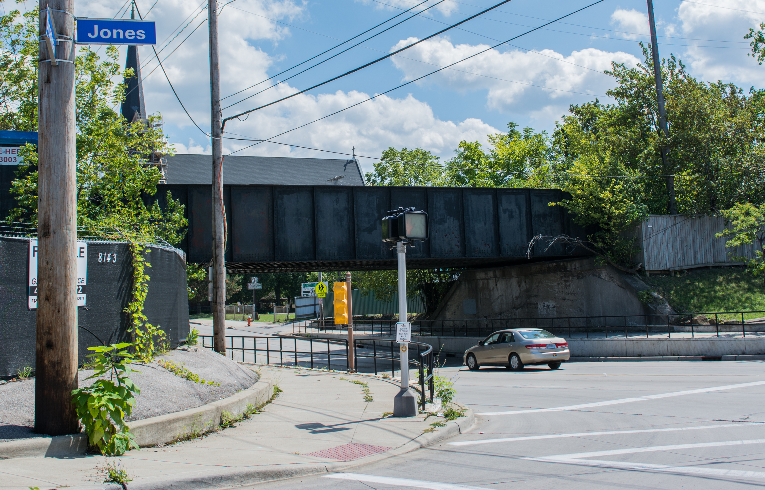 The Newburgh and South Shore Railway bridge at Broadway Avenue and Jones Road in the Union-Miles Park neighborhood of Cleveland, Ohio, in the United States. The railway route was established and tracks first laid in 1899. U.S. Steel bought the railroad's parent corporation (American Wire & Steel Co.) in 1901. U.S. Steel closed the road in 1984. A portion of the road was sold to Omnitrax in 1986, although some of the line was abandoned.